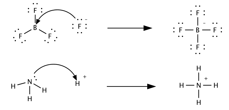 comparison of Lewis and Brønsted acid-base rxns